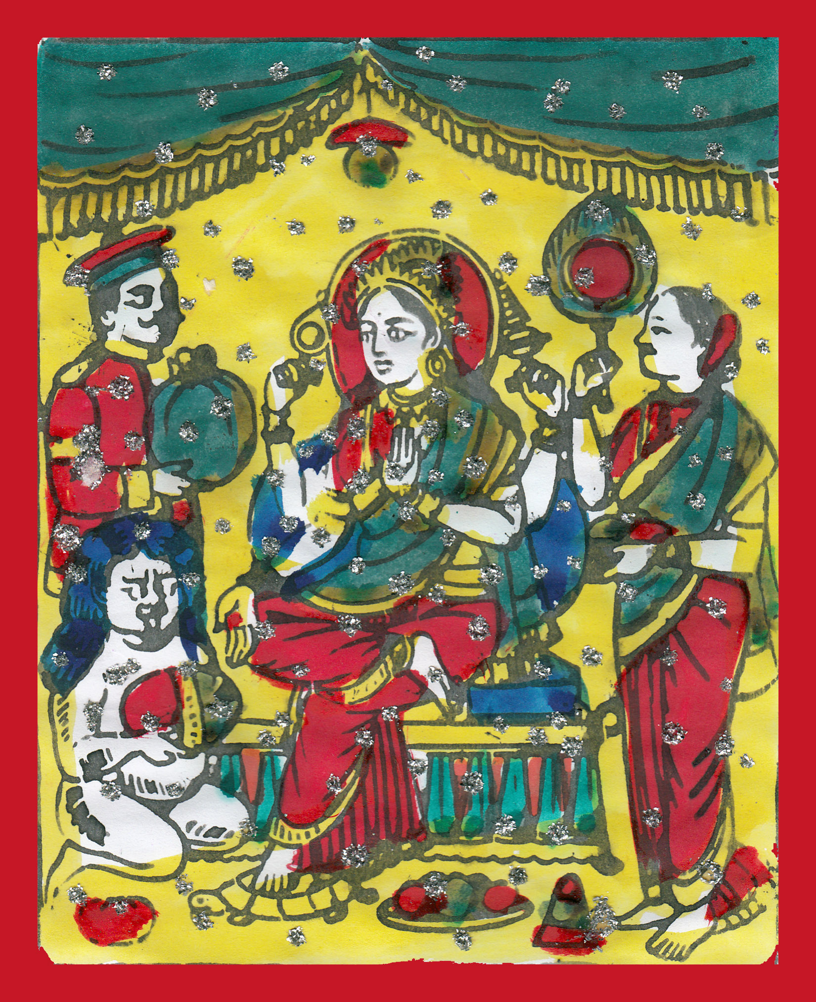 Traditional colored wood block print from Nepal of Laxmi Dyah, the goddess of wealth.